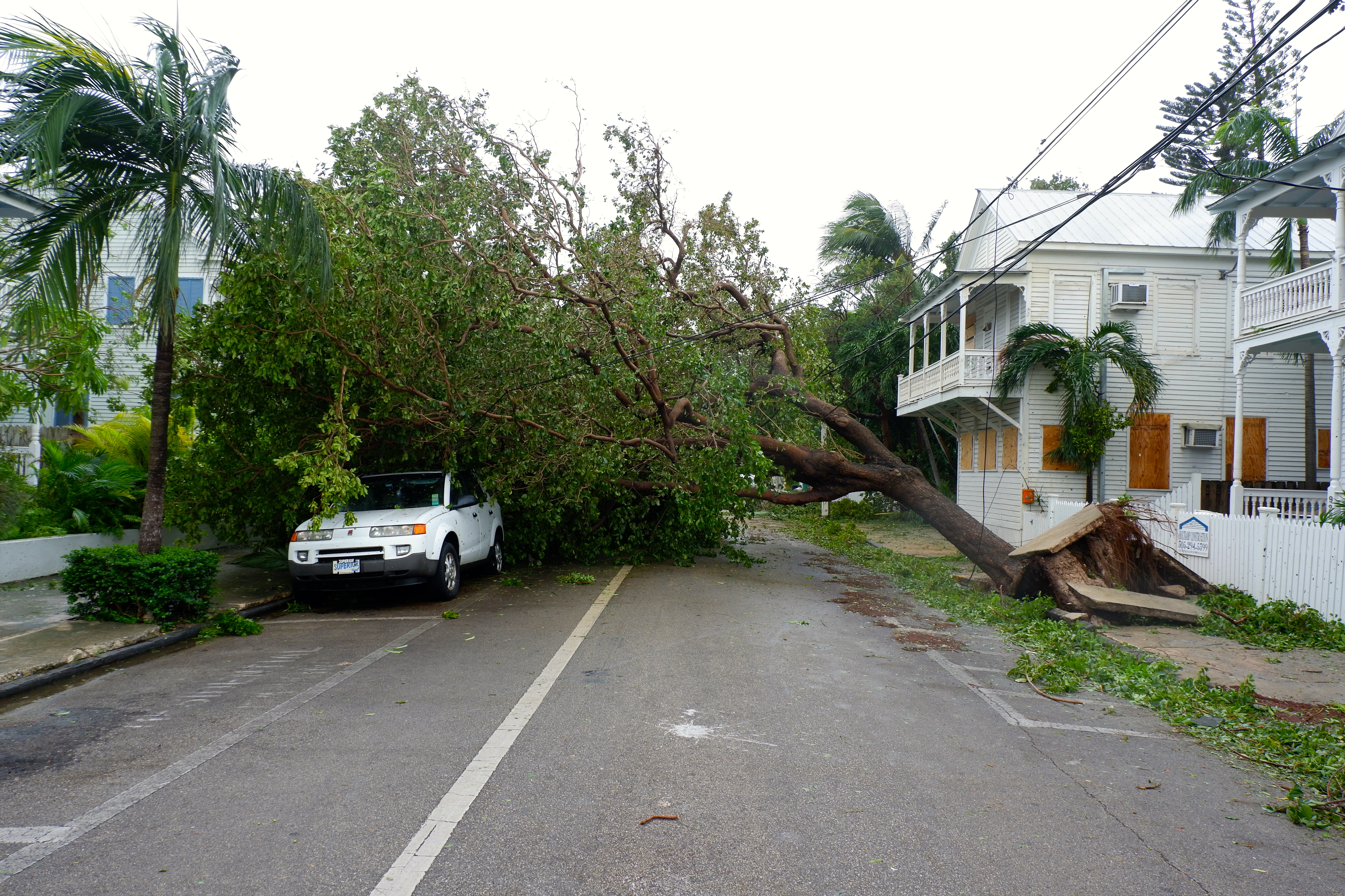 Hurricane Irma 19